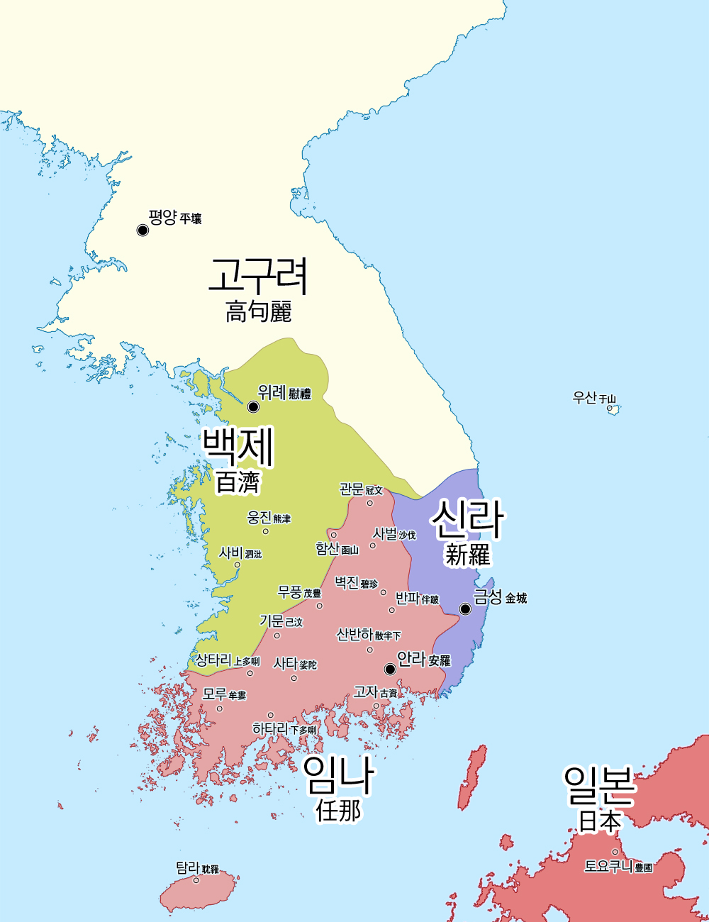 The map of three kingdoms of Korea based on the construction of Imna Japan-fu theory.